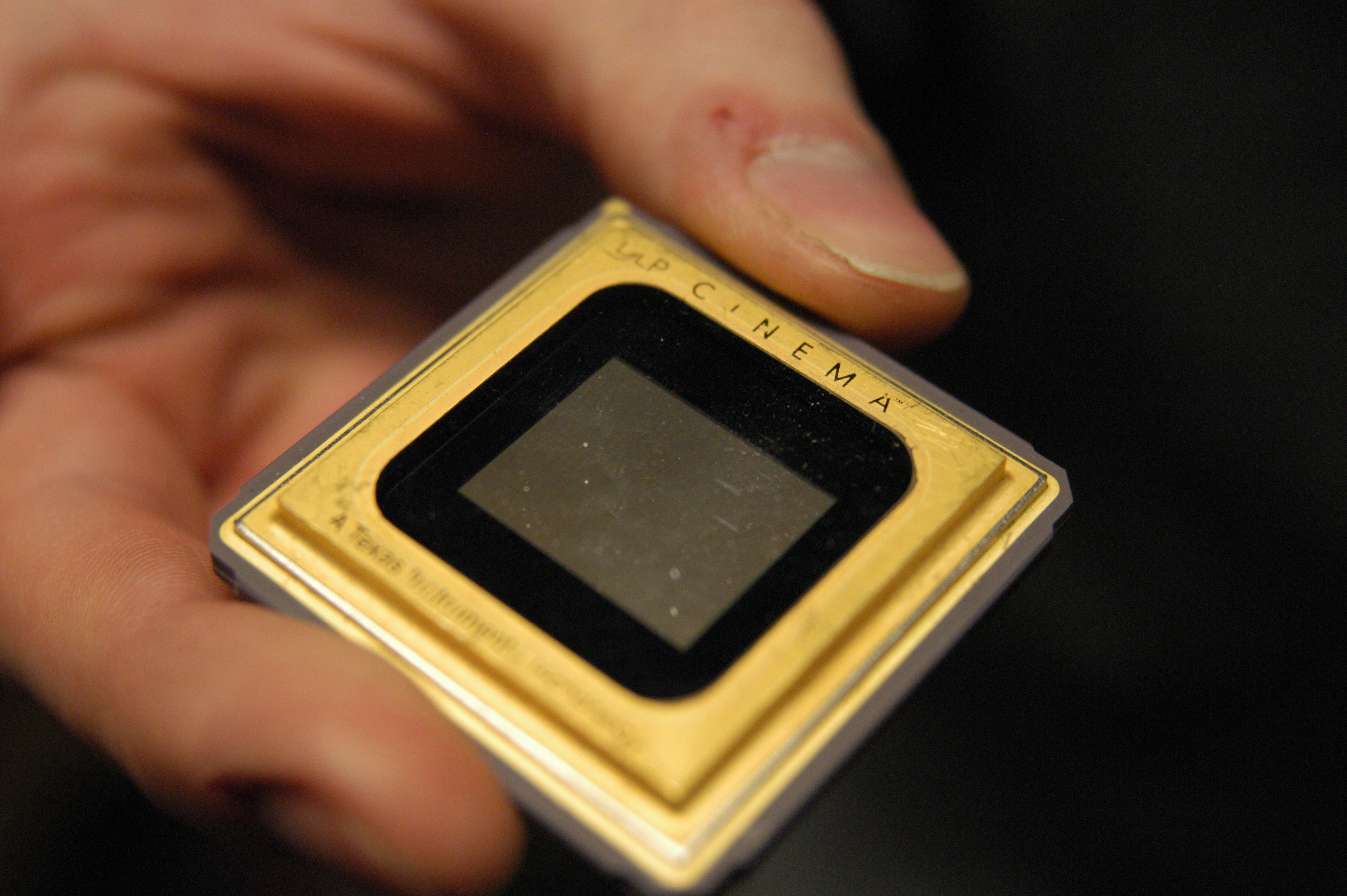 Picture of DLP chip used in a digital projector at the Cinerama in Seattle.